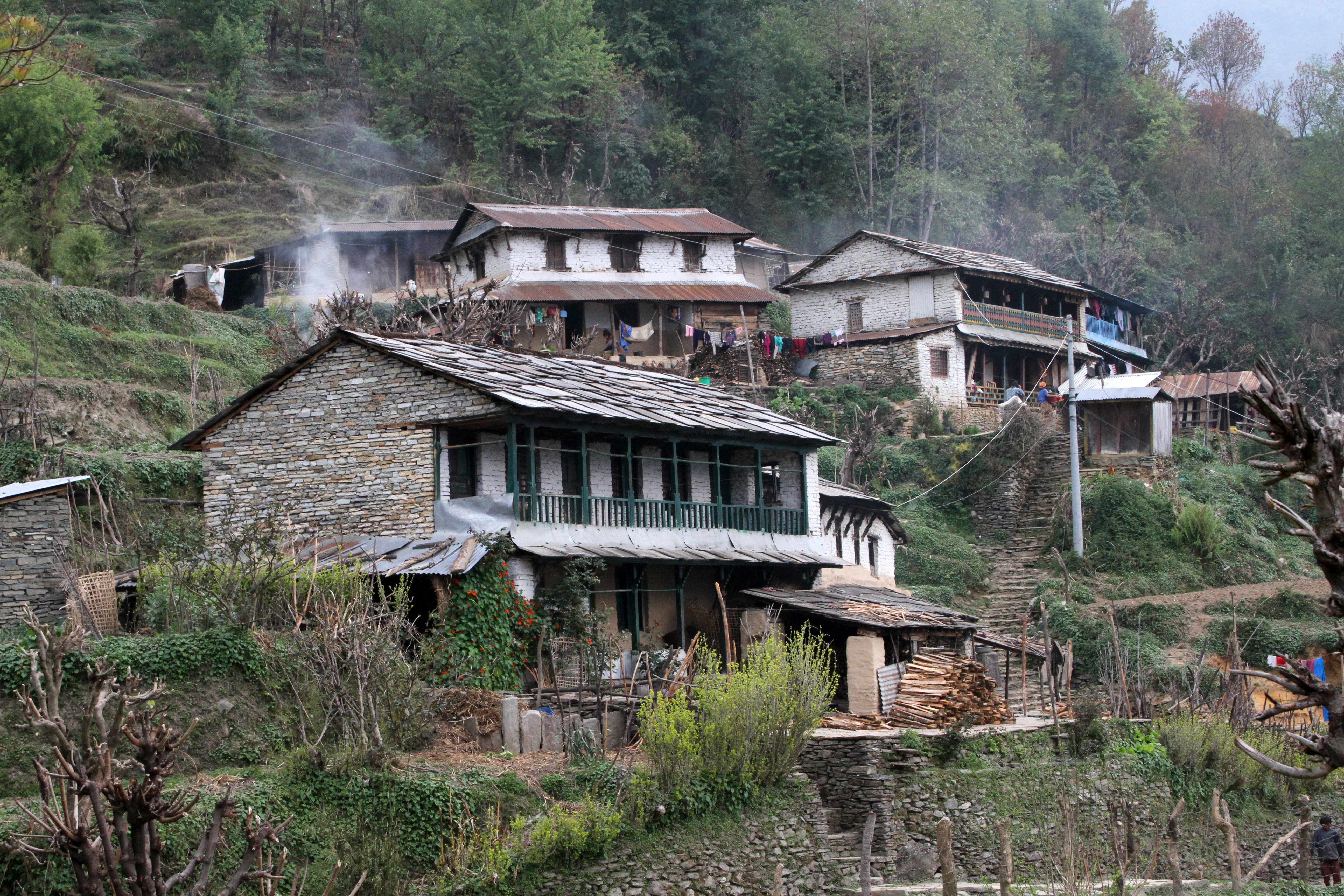 Village of Ghandruk in Nepal